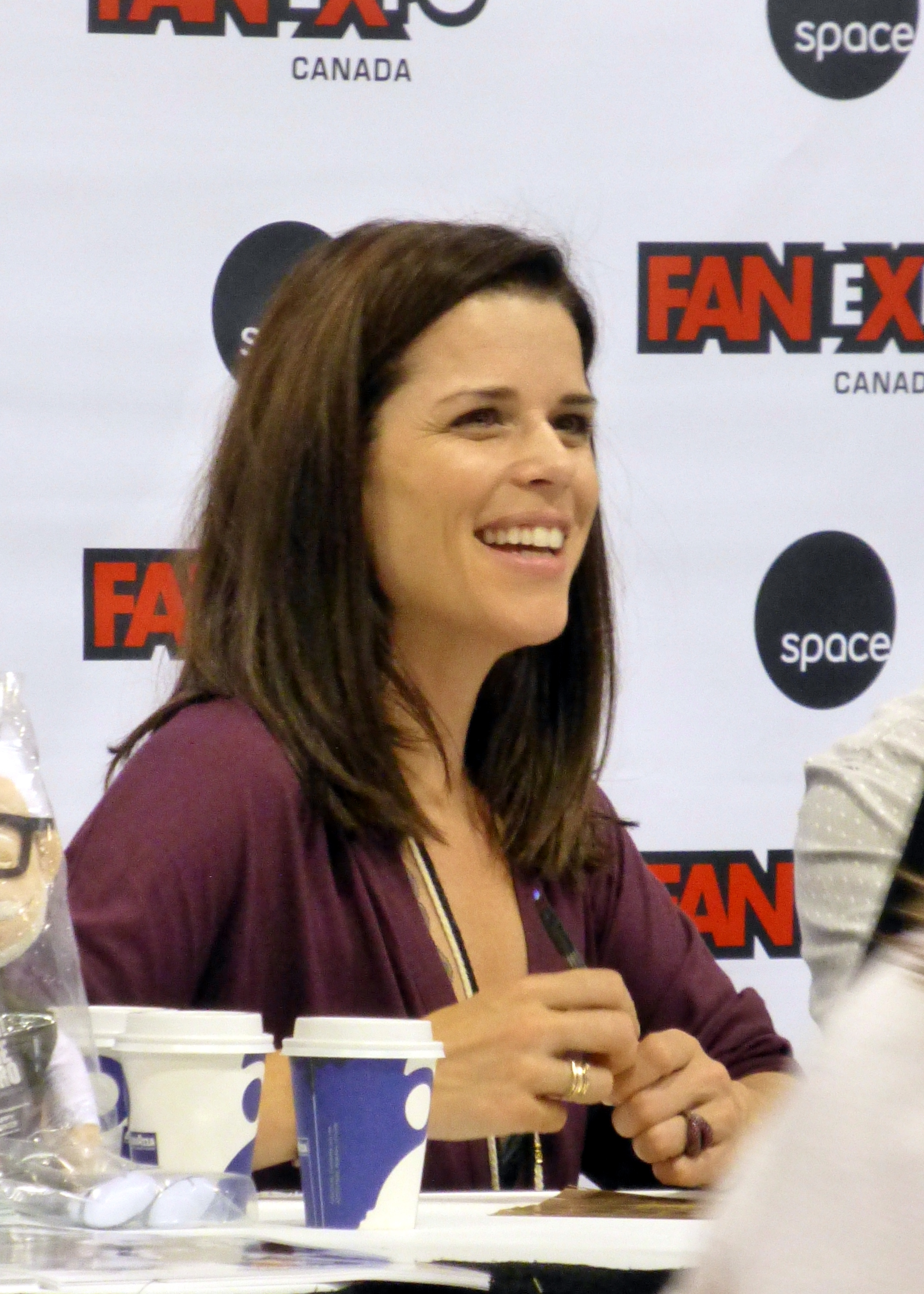 Fan Expo Canada in Toronto in 2015.